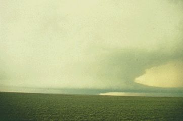 NWS image of a High Precipitation.